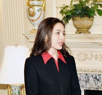 Roxana Saberi, an American journalist.